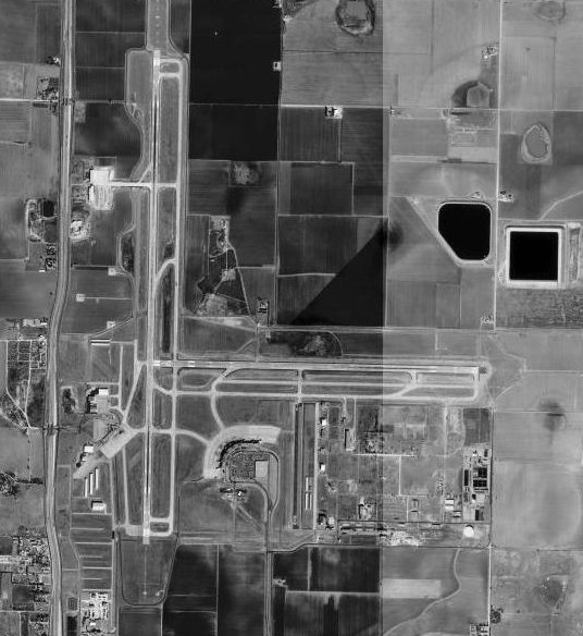 Lubbock Airport, TX - 15 Dec 1995 Source: United States Geological Survey digital orthophotoquad via TerraService WebMap Server